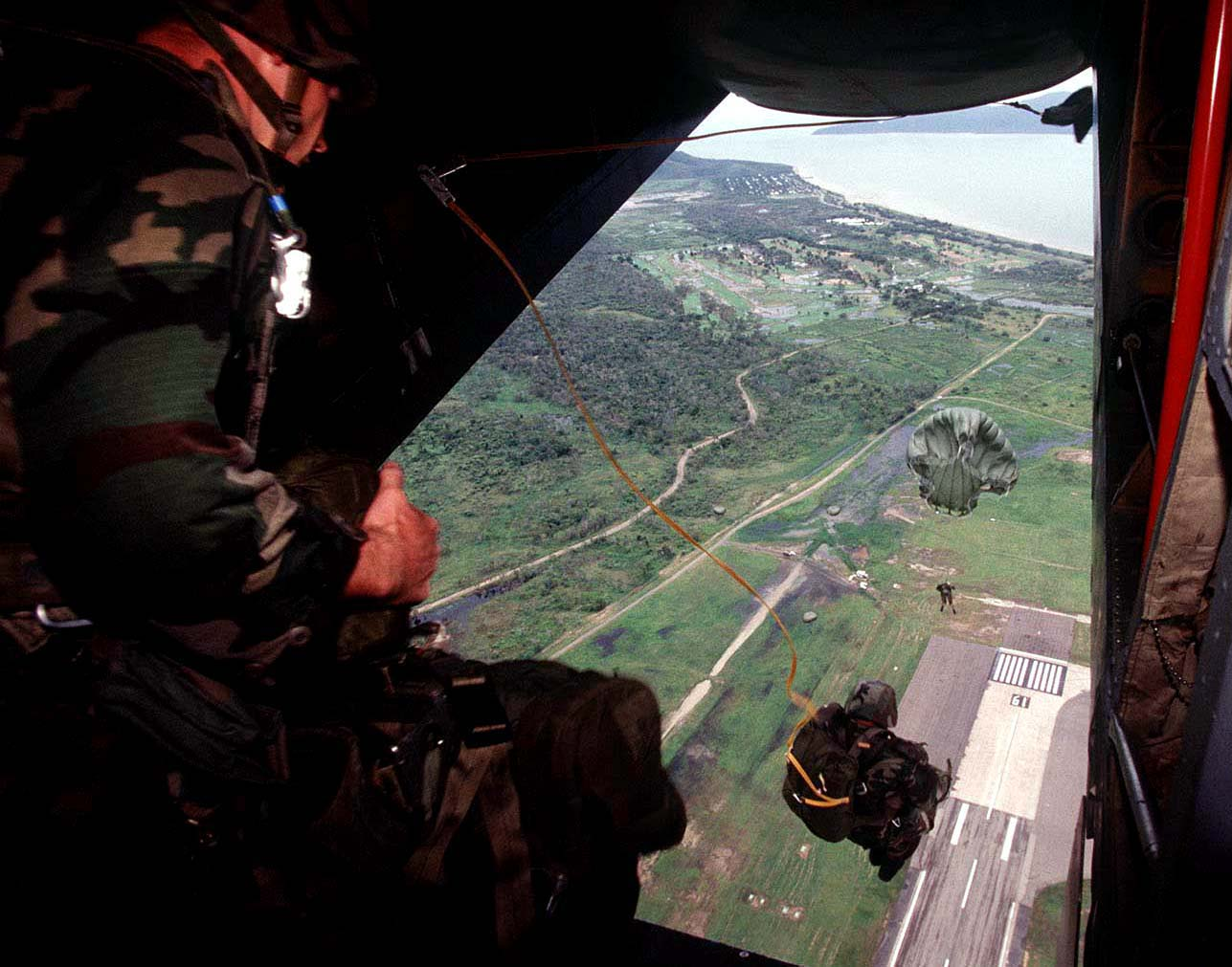 U.S. Army parachutists from the 1st Battalion, 1st Special Forces Group (Airborne) perform a static line jump out of an Australian DHC-4 Caribou troop transport aircraft over Royal Australian Air Force Base Townsville, Australia, on March 3, 1997. The soldiers are participating in exercise Tandem Thrust '97, a combined military training exercise involving 28,000 personnel, 252 aircraft and 43 ships, and is designed to train U.S. and Australian staffs in crisis action planning and contingency response operations. The 1st Special Forces Group is deployed for the exercise from Okinawa, Japan.